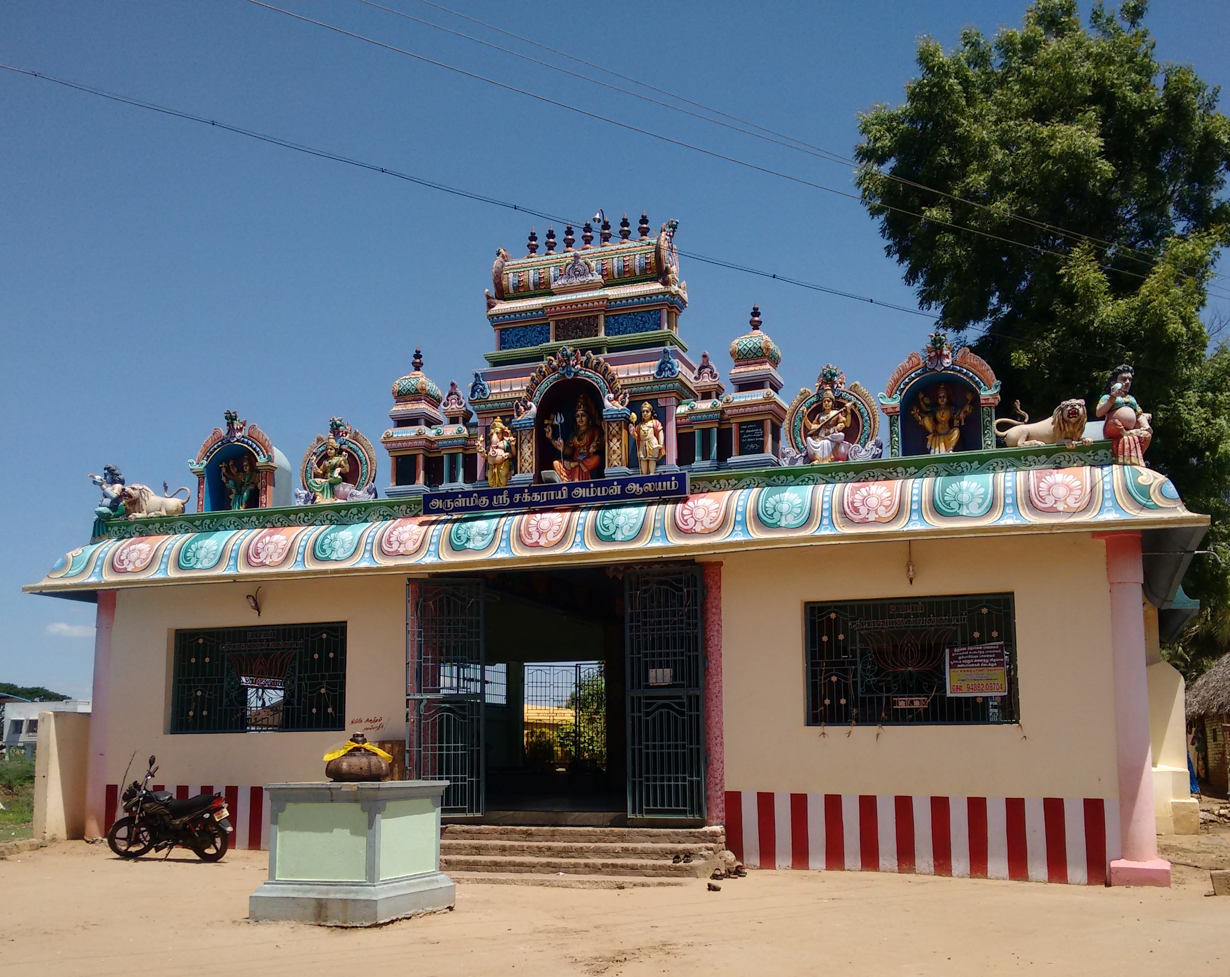 Darasuram Sakkarayiamman temple தாராசுரம் சக்கராயியம்மன் கோயில்